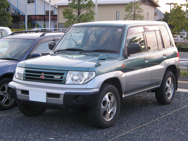 Mitsubishi "Pajero io"